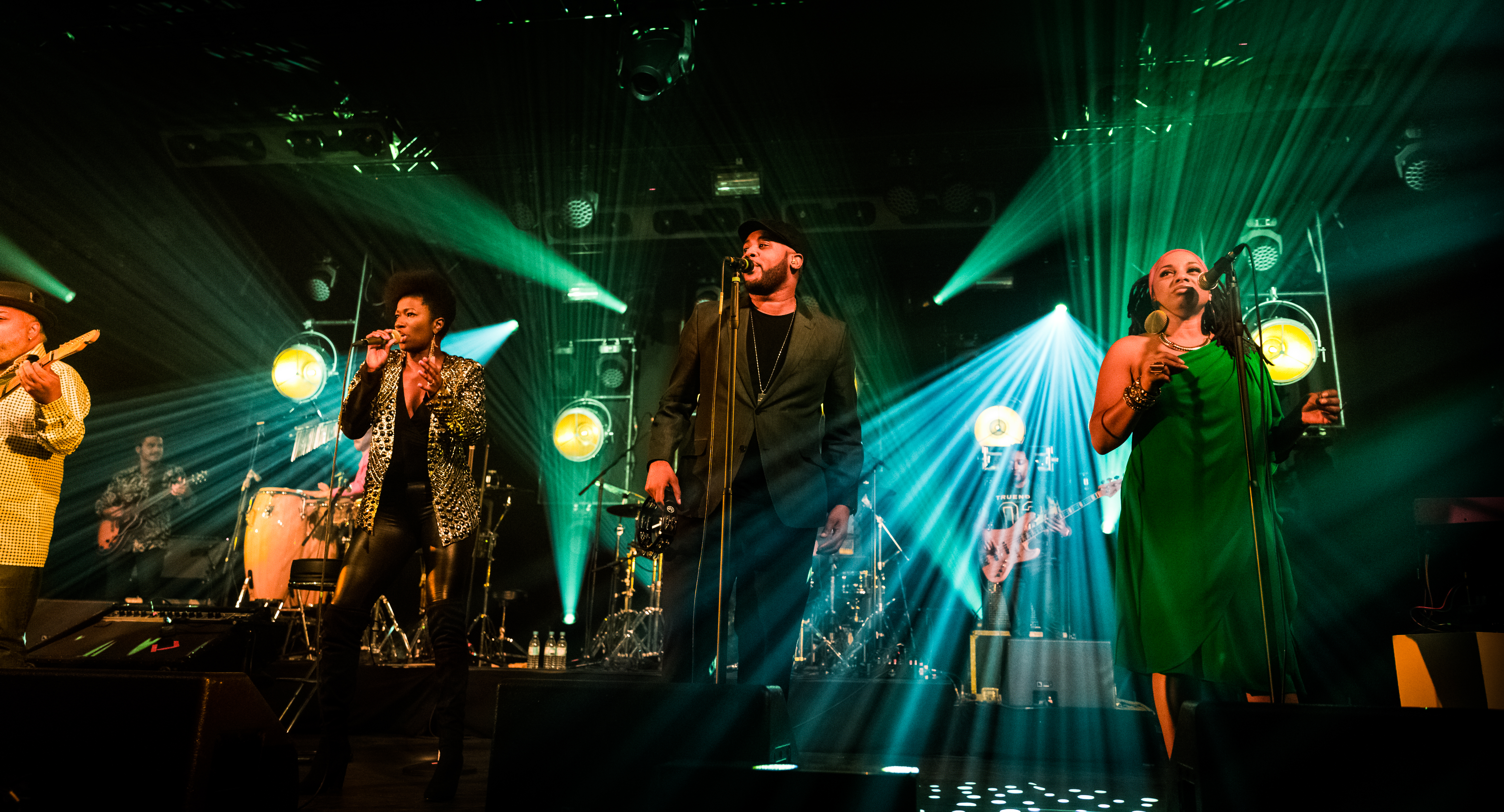 Incognito - Leverkusener Jazztage 2016